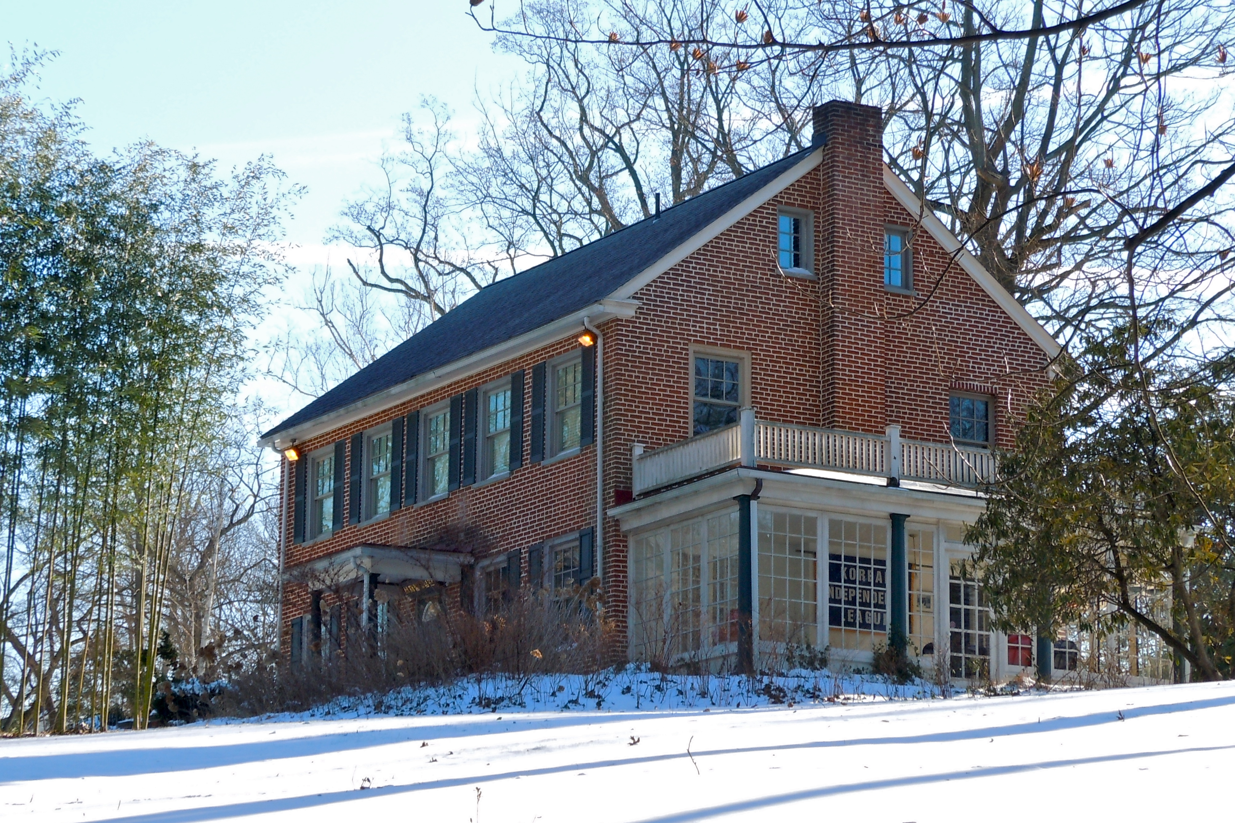 House of Philip Jaisohn - or Seo Jae-pil - a founding father of (South) Korea. The House is in Media, Pennsylvania where he worked for many years. A PHMC historical marker marks the site.